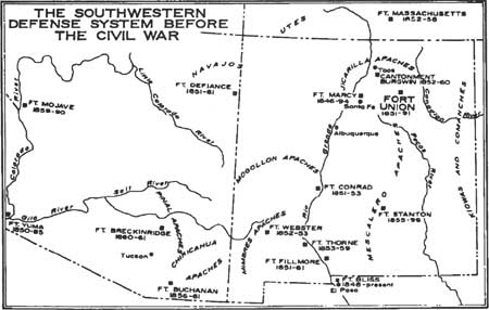 Southwestern Defense System before the Civil War. Source: Robert M. Utley, Fort Union National Monument, 34.